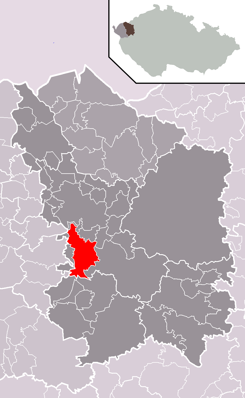 Location of Stanovice municipality within Karlovy Vary District and administrative area of Karlovy Vary as a Municipality with Extended Competence.